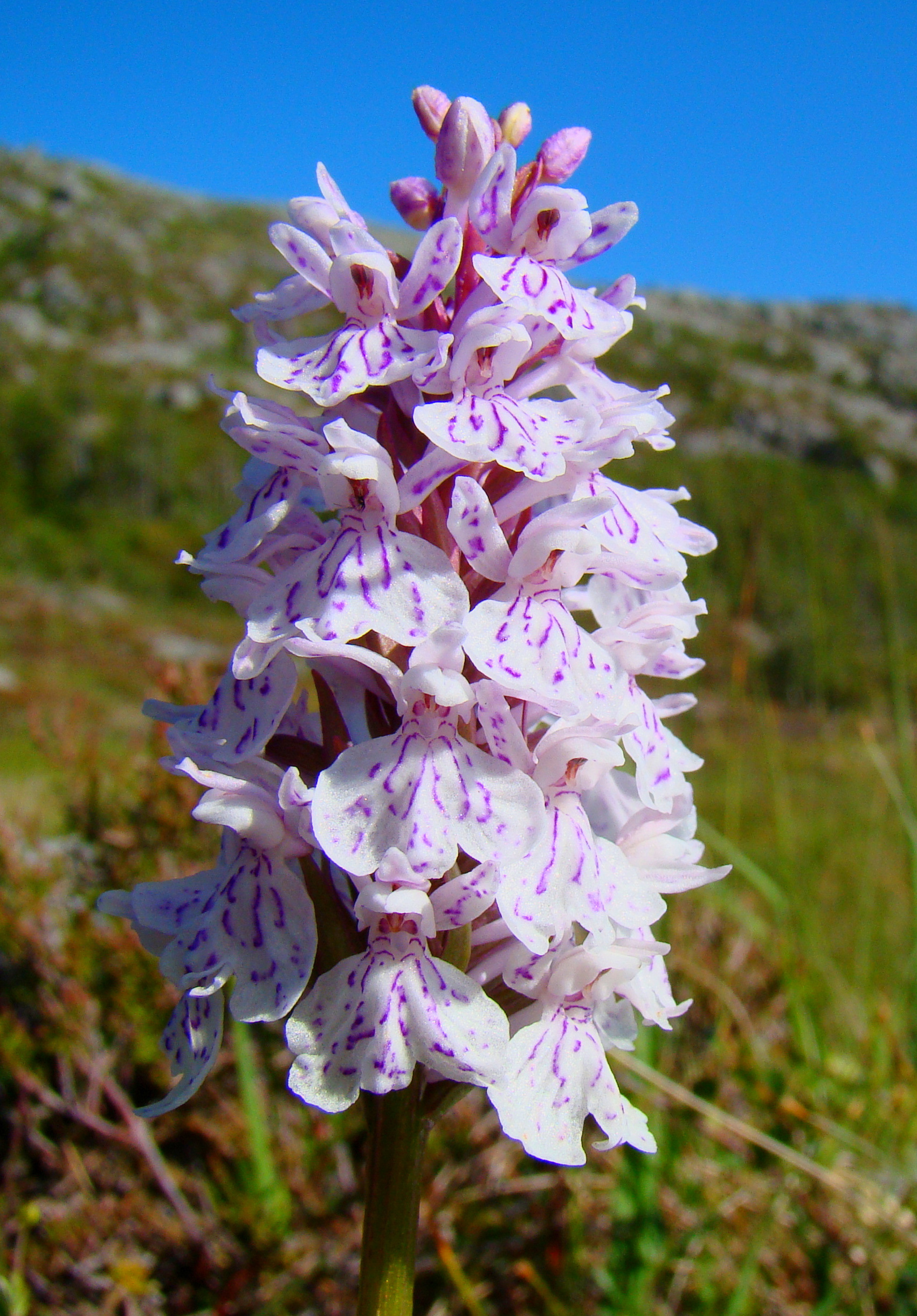 A Dactylorhiza maculata photographed in Northern Norway, flowering in the mountains in June.